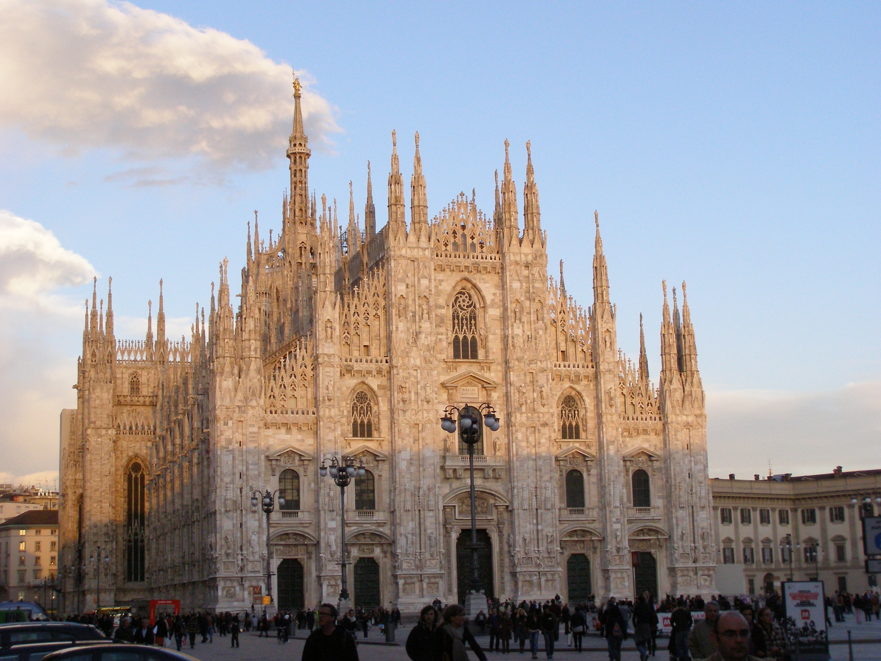 Milan - cathedral